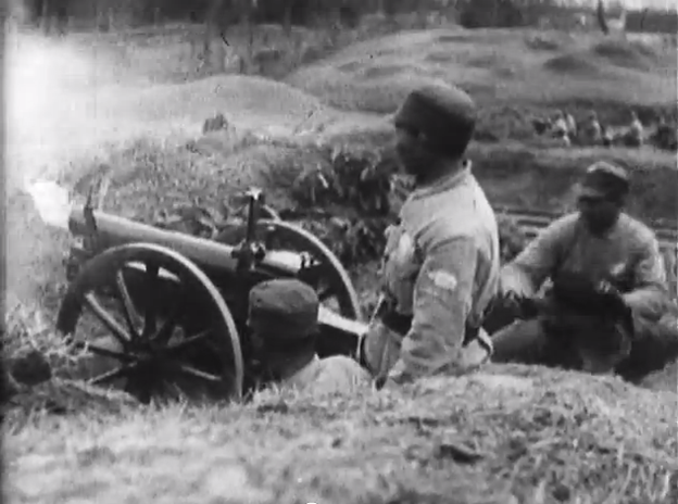 National Revolutionary Army firing on Communist forces (early 1930s)